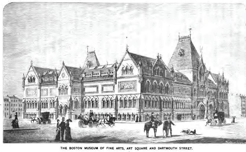 Etching of the Boston Museum of Fine Arts Building on the corner of Dartmouth Street and St James Ave in Boston which it occupied from 1876-1909